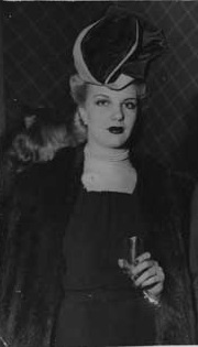 Mabel Urriola-actriz